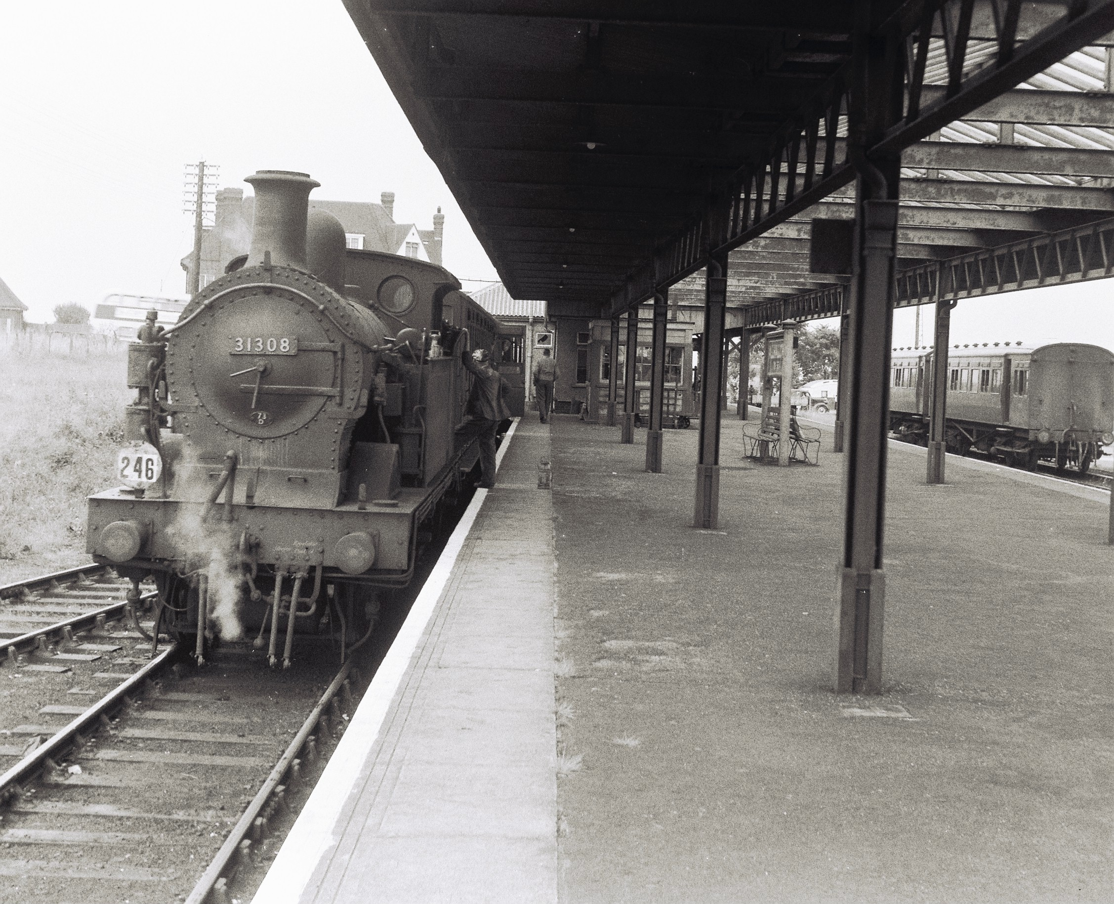 SECR H Class 31308 at Allhallows-on-Sea railway station with the 5:31pm to Gravesend Central (non-stop).